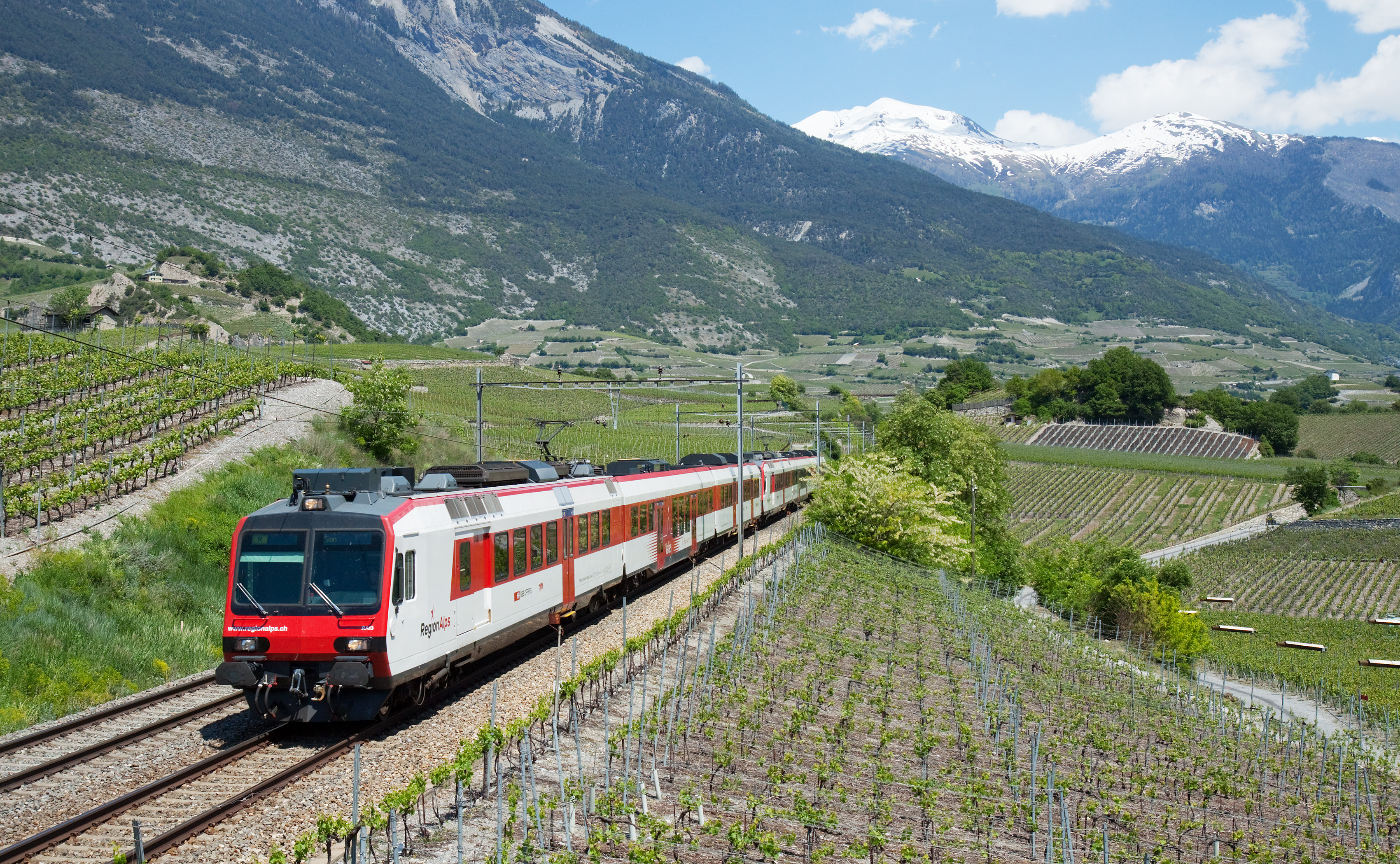 Two SBB-CFF-FFS RBDe 560 push-pull trains of the new "Domino" variety on their way from Brig to Sion, near Sierre.